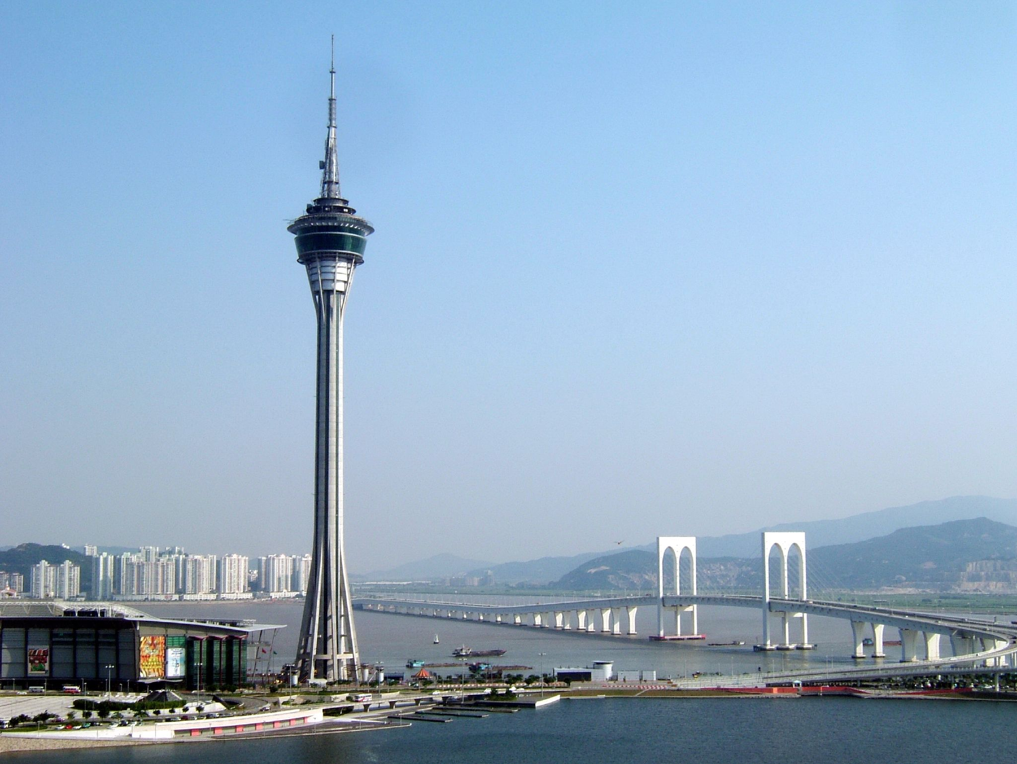 Macau Tower